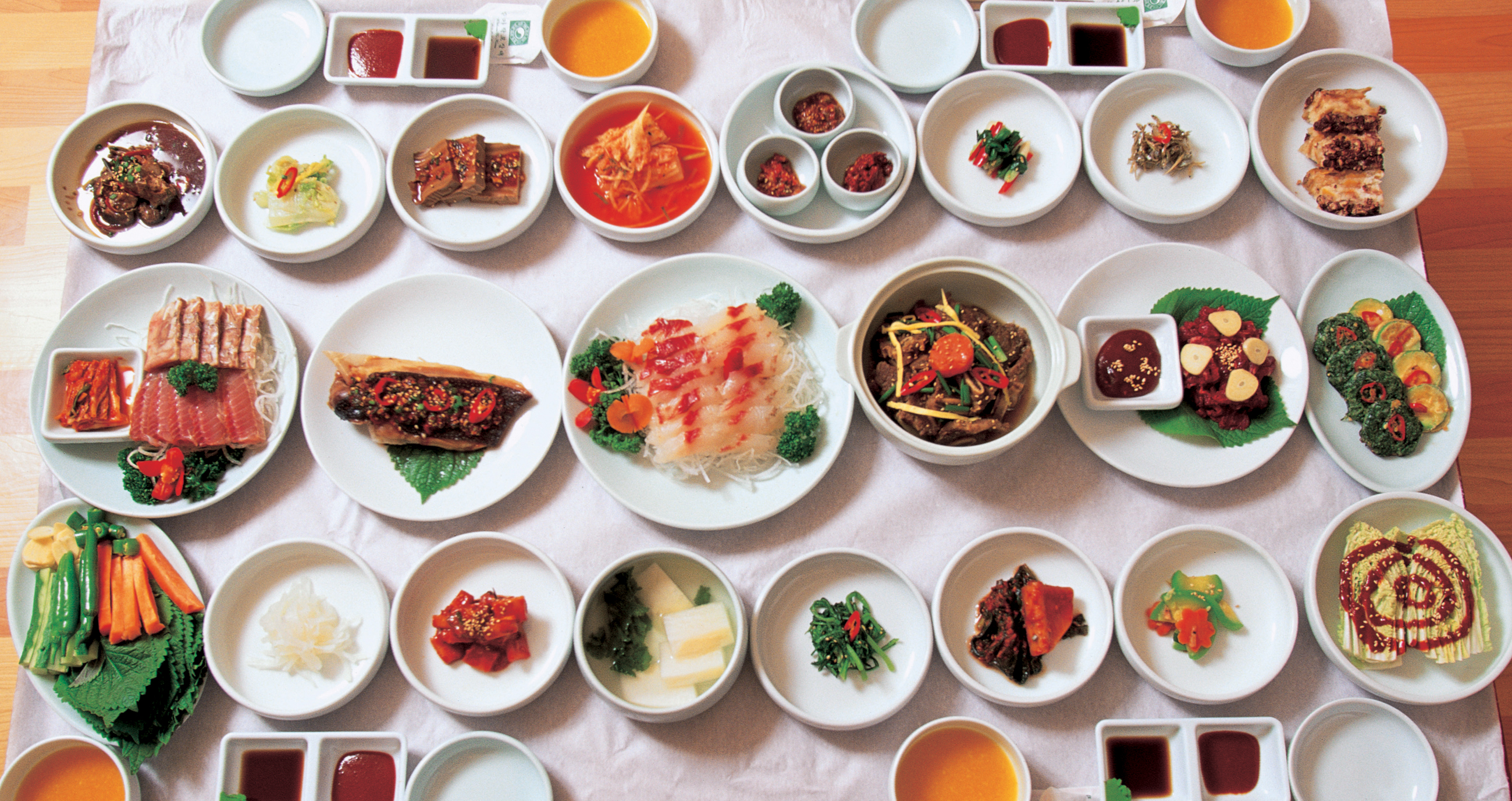 A sample Korean table